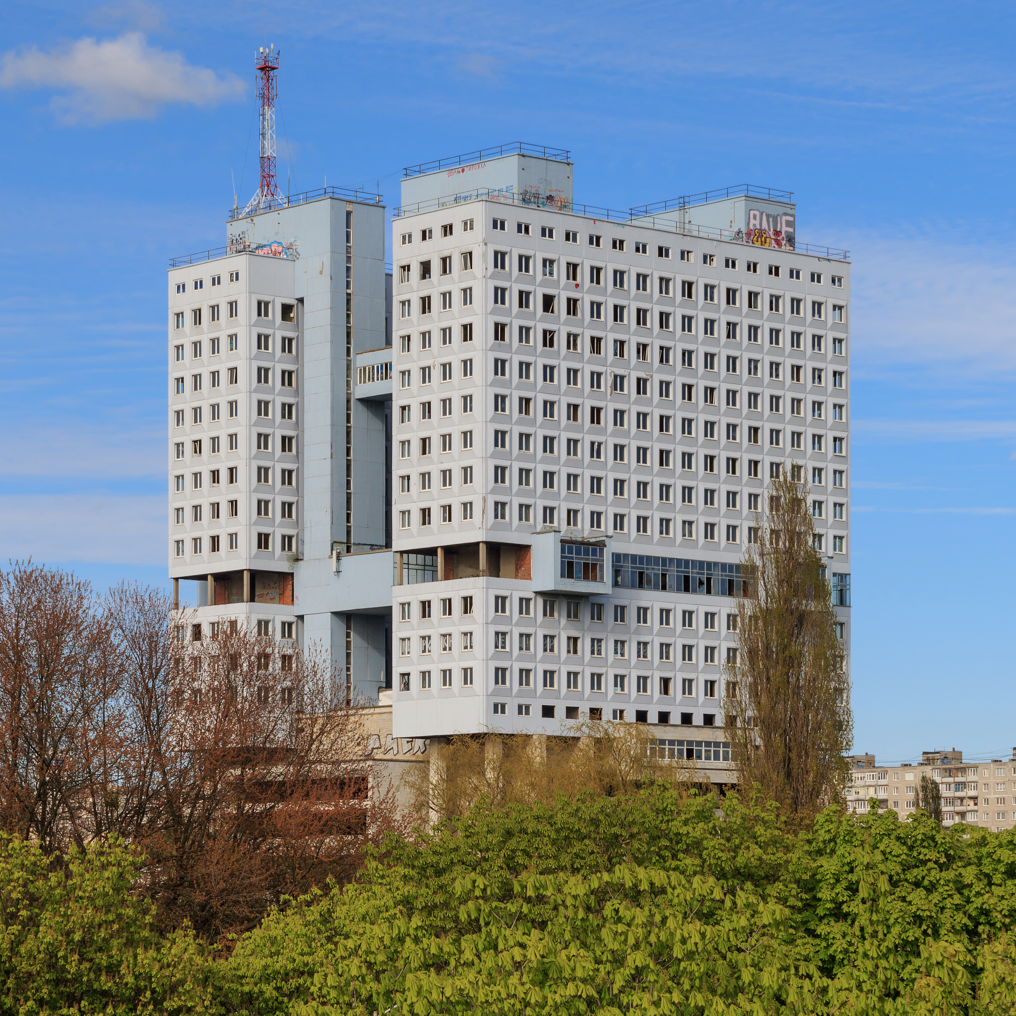 Abandoned House of Soviets construction in Kaliningrad formerly Königsberg, Kaliningrad Oblast (Russia).